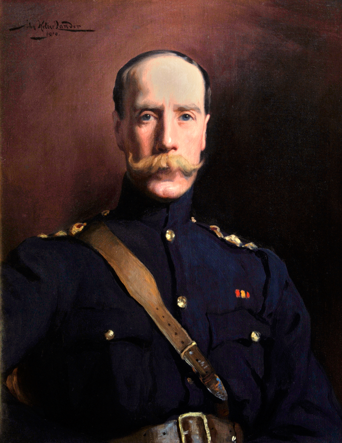 A 1905 portrait of Colonel Stuart Peter Rolt CB (29 July 1862 – 8 May 1933), later Brigadier-General, who served as Commandant of the Royal Military College Sandhurst 1914-1916.